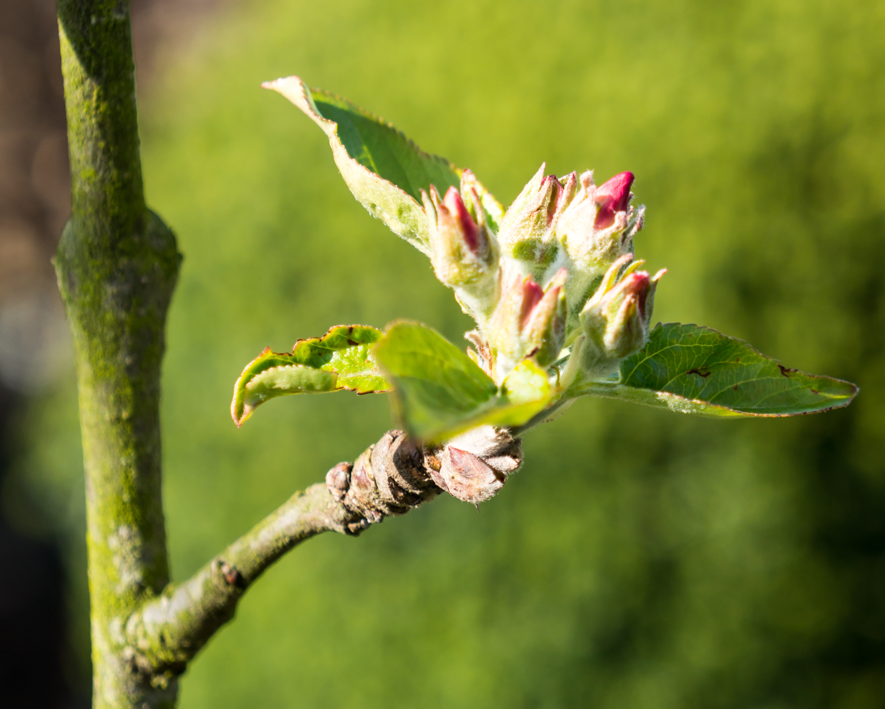 Blossom of apple tree “Dülmener Rose” (in Dülmen, North Rhine-Westphalia, Germany)